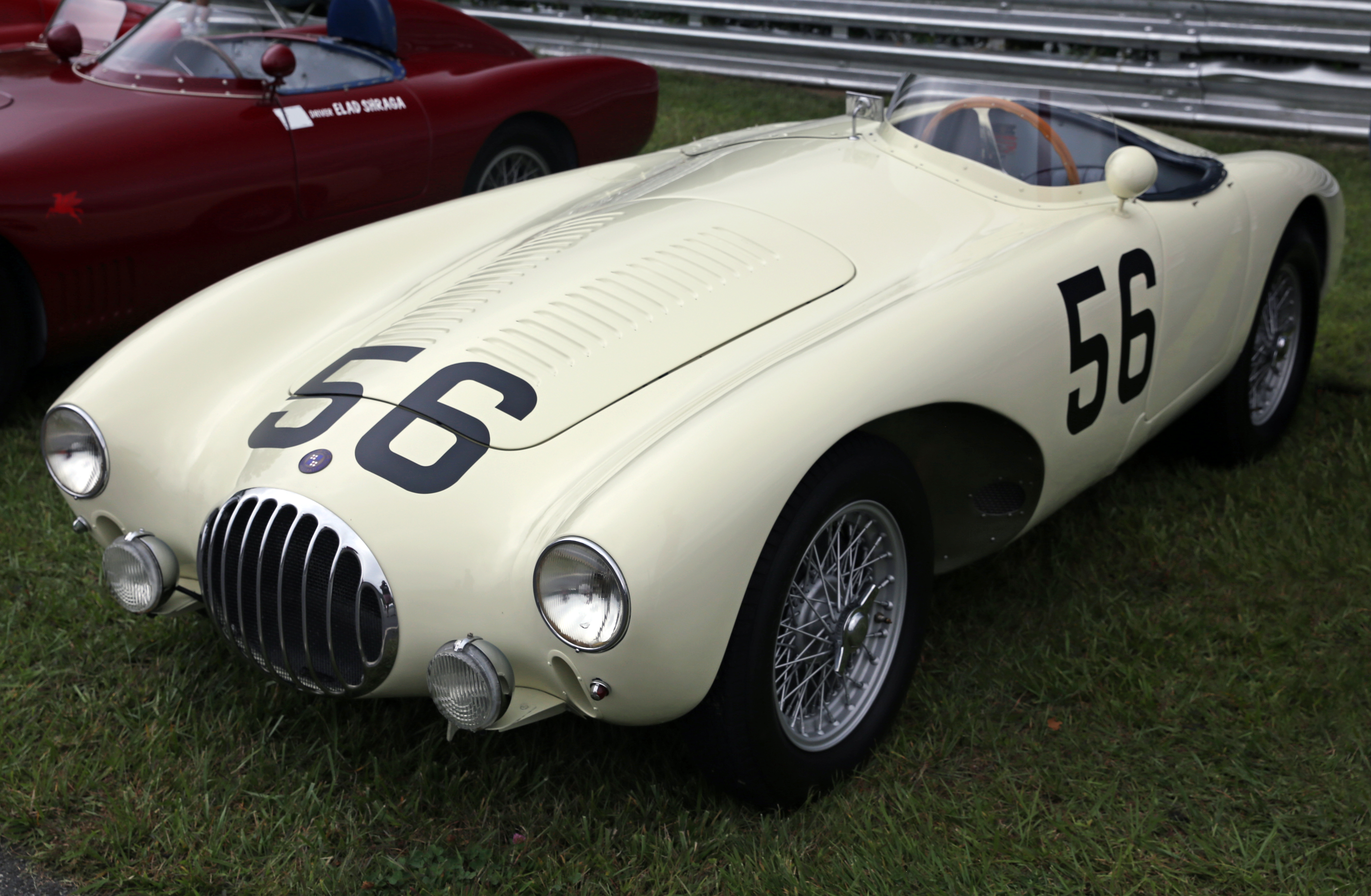 1954 O.S.C.A. MT4 1500 roadster seen at the 2014 Lime Rock Concours d'Élegance. Belongs to the Revs Institute of Naples, FL, was once raced by Stirling Moss who still gets to drive this car every so often. The car was entered by Briggs Cunningham for the 1954 12 Hours of Sebring, where Moss (together with Bill Lloyd) won a surprise victory against the considerably more powerful Lancias and Ferraris.